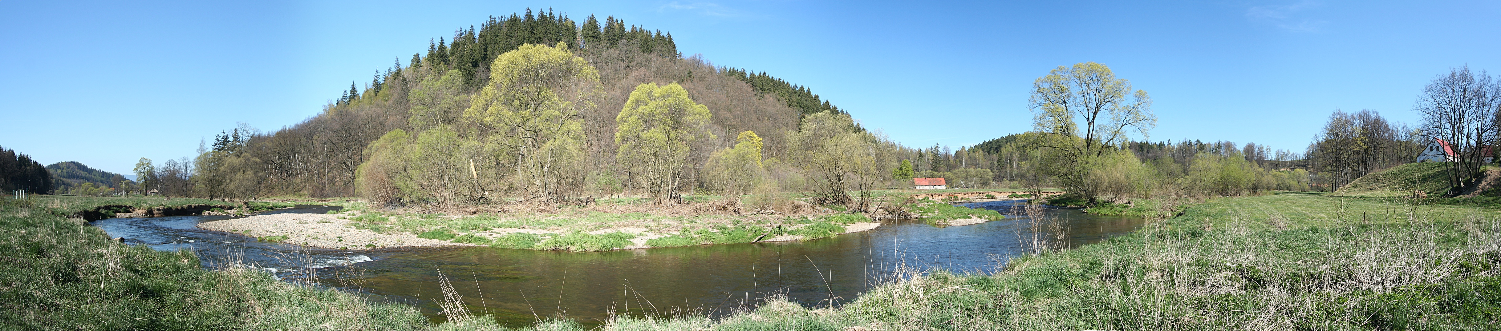 Bóbr river near Bobrów village Lower Silesia, Poland.